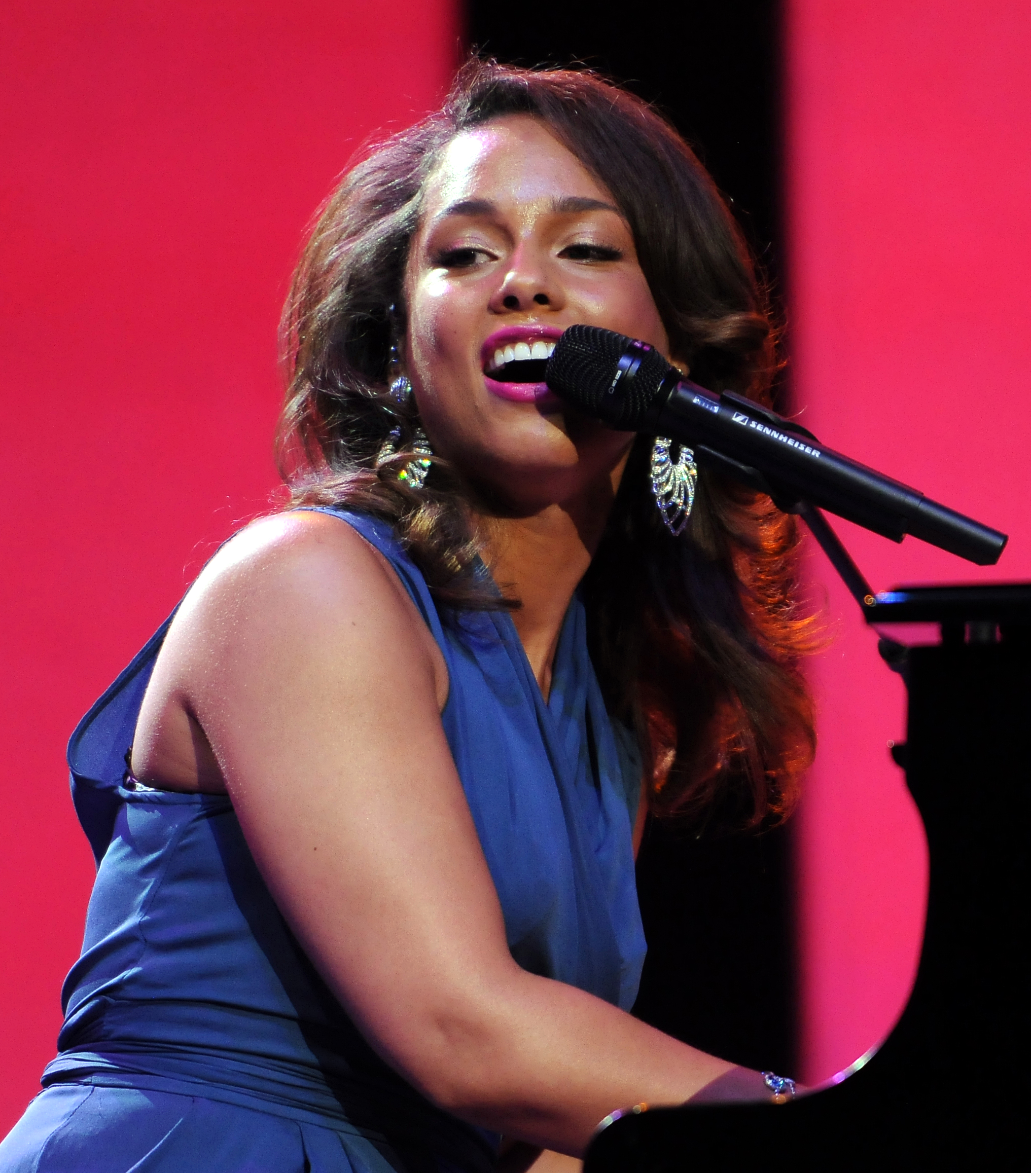 Alicia Keys at the Walmart Shareholders Meeting 2011.